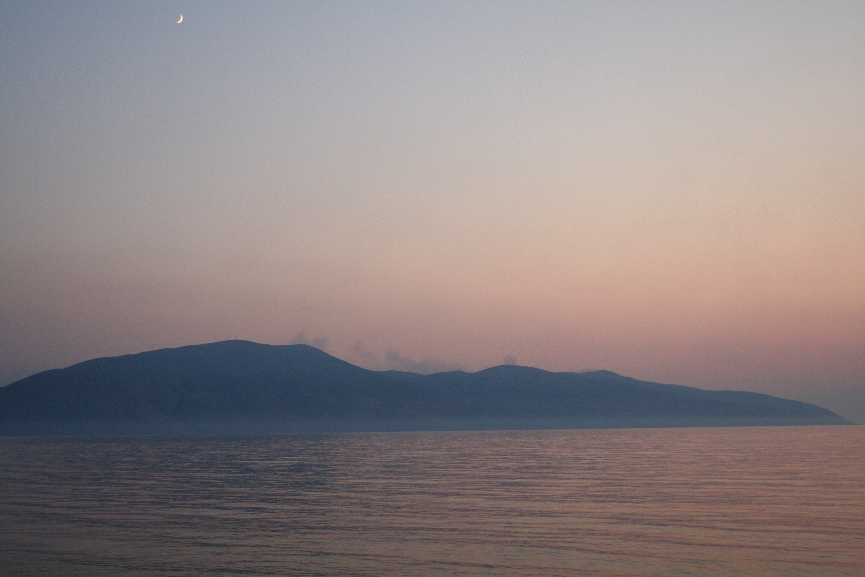 Sunset on the Bay of Vlora, the Karaburun Peninsula can be seen